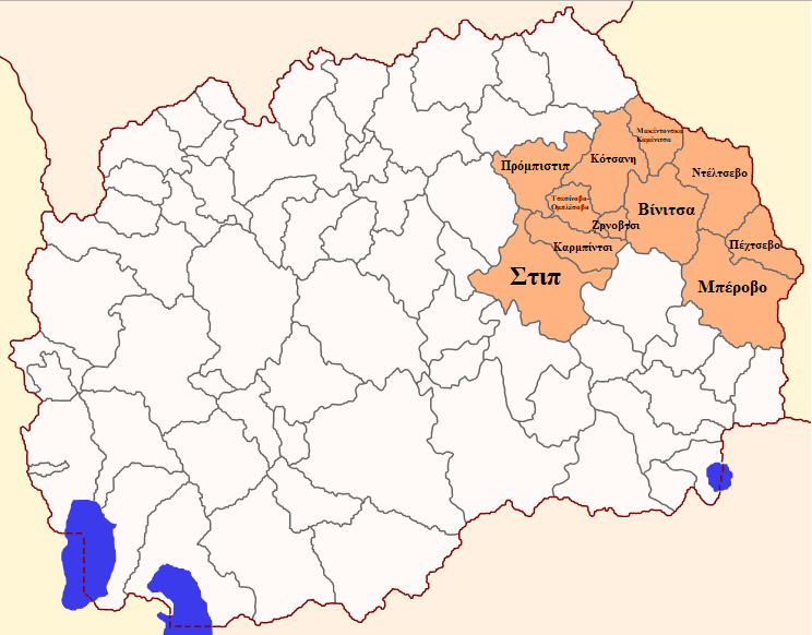 The municipalities of Eastern Statistical Region of North Macedonia in Greek language.